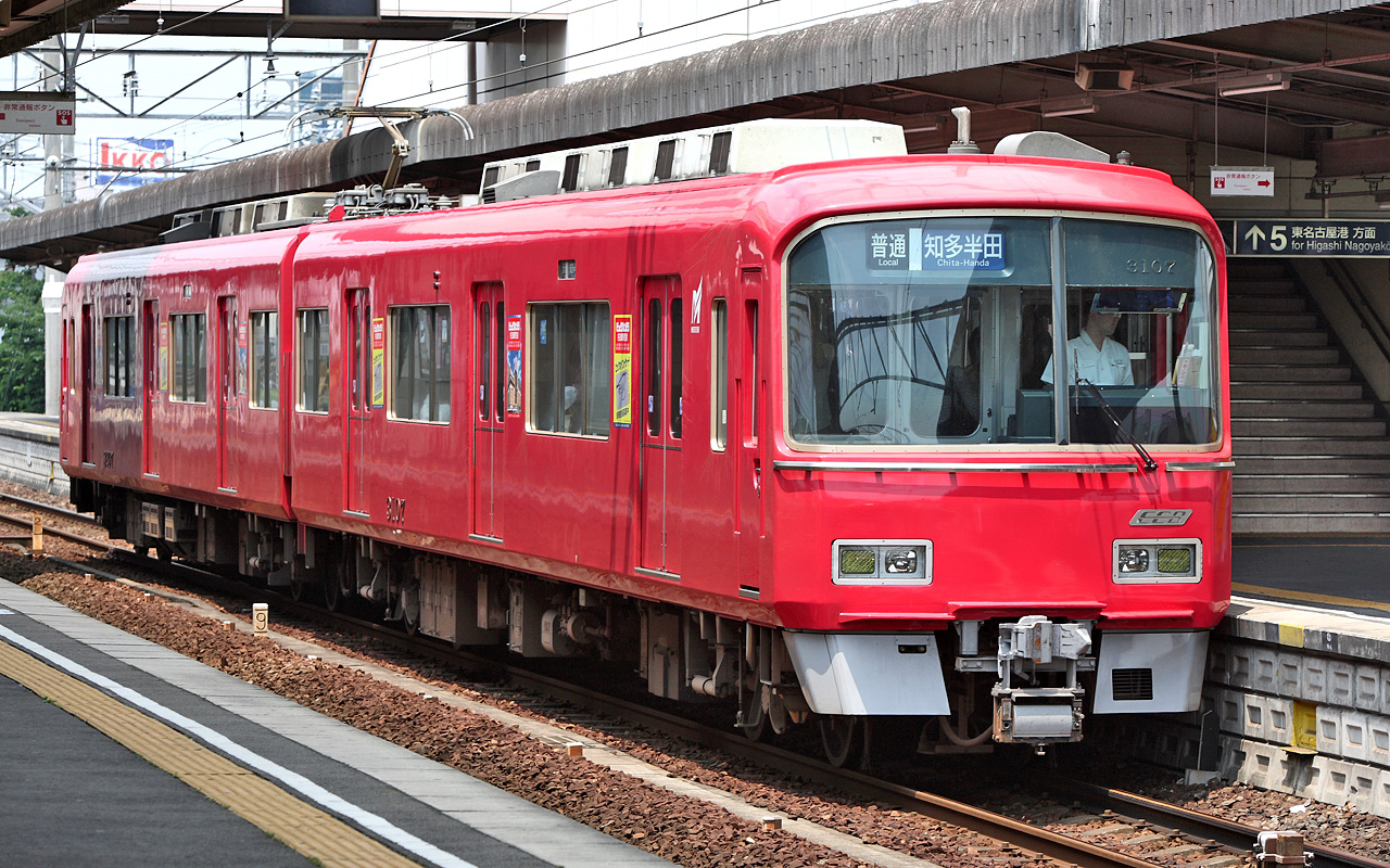 Meitetsu 6750 series (3107F at Oe Station.)